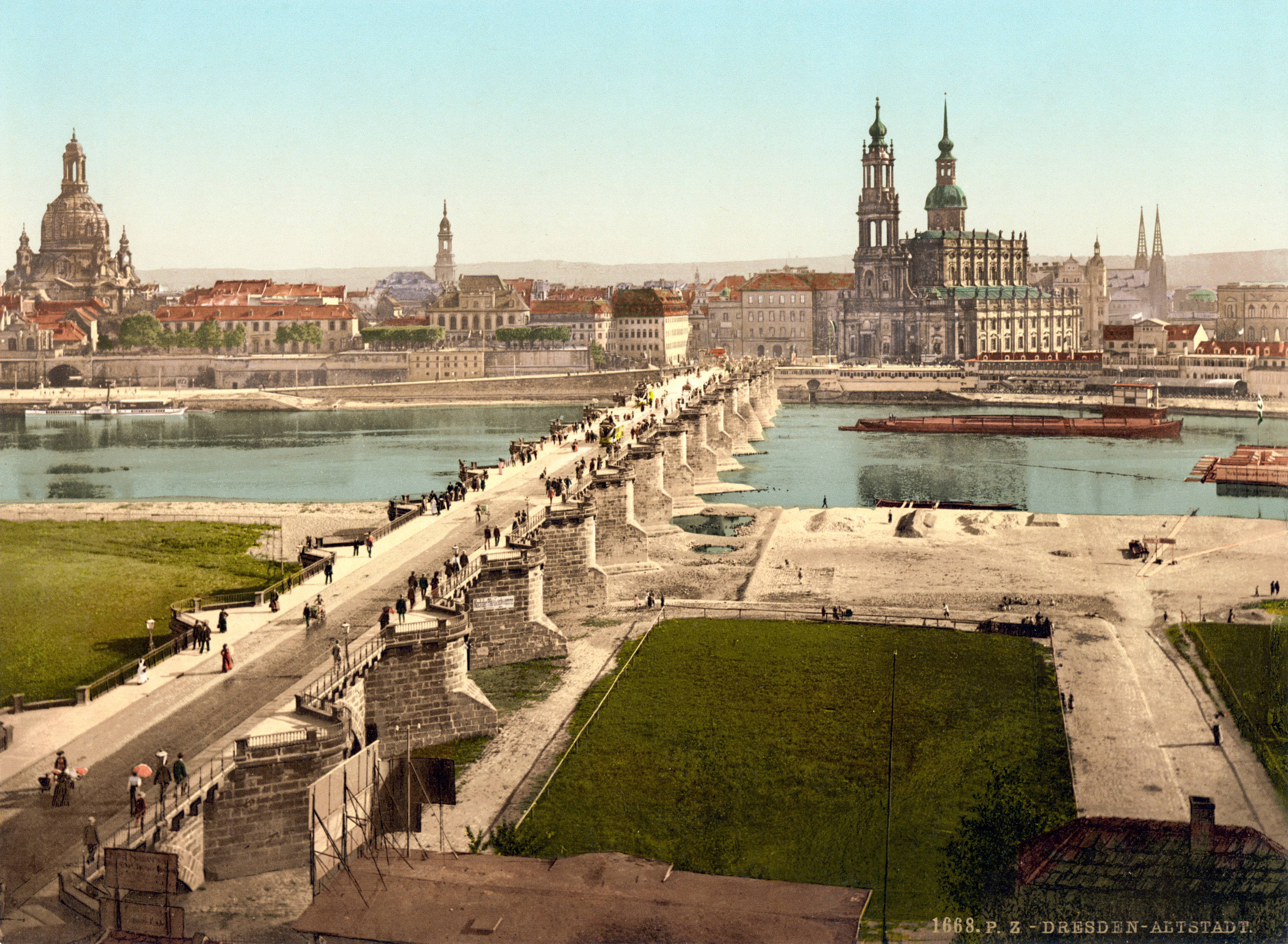 Altstadt, Dresden, seen from the Ministry of War, Saxony, Germany.